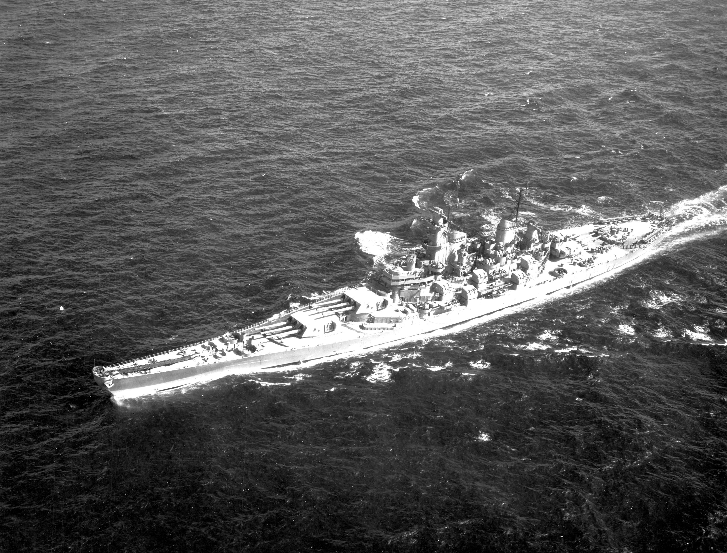 BB-61, USS Iowa, 1947.